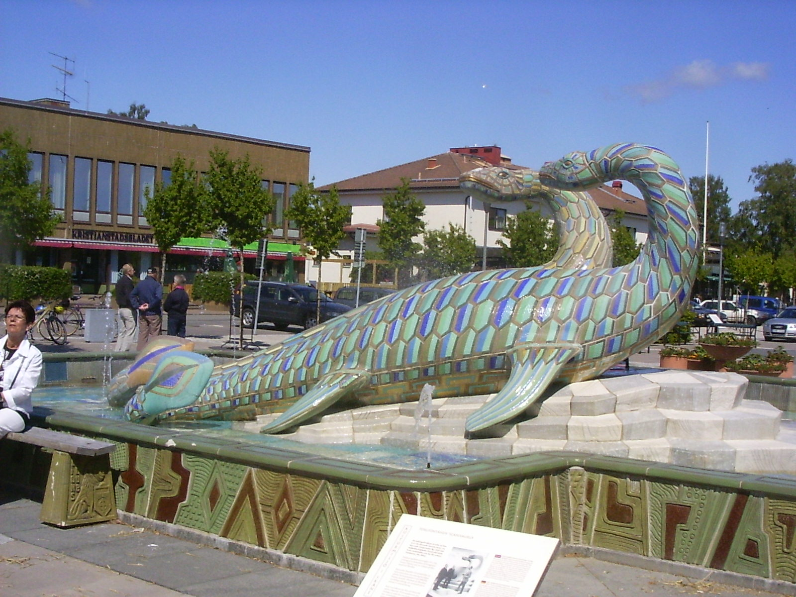 Bromölla, dinosaur sculpture